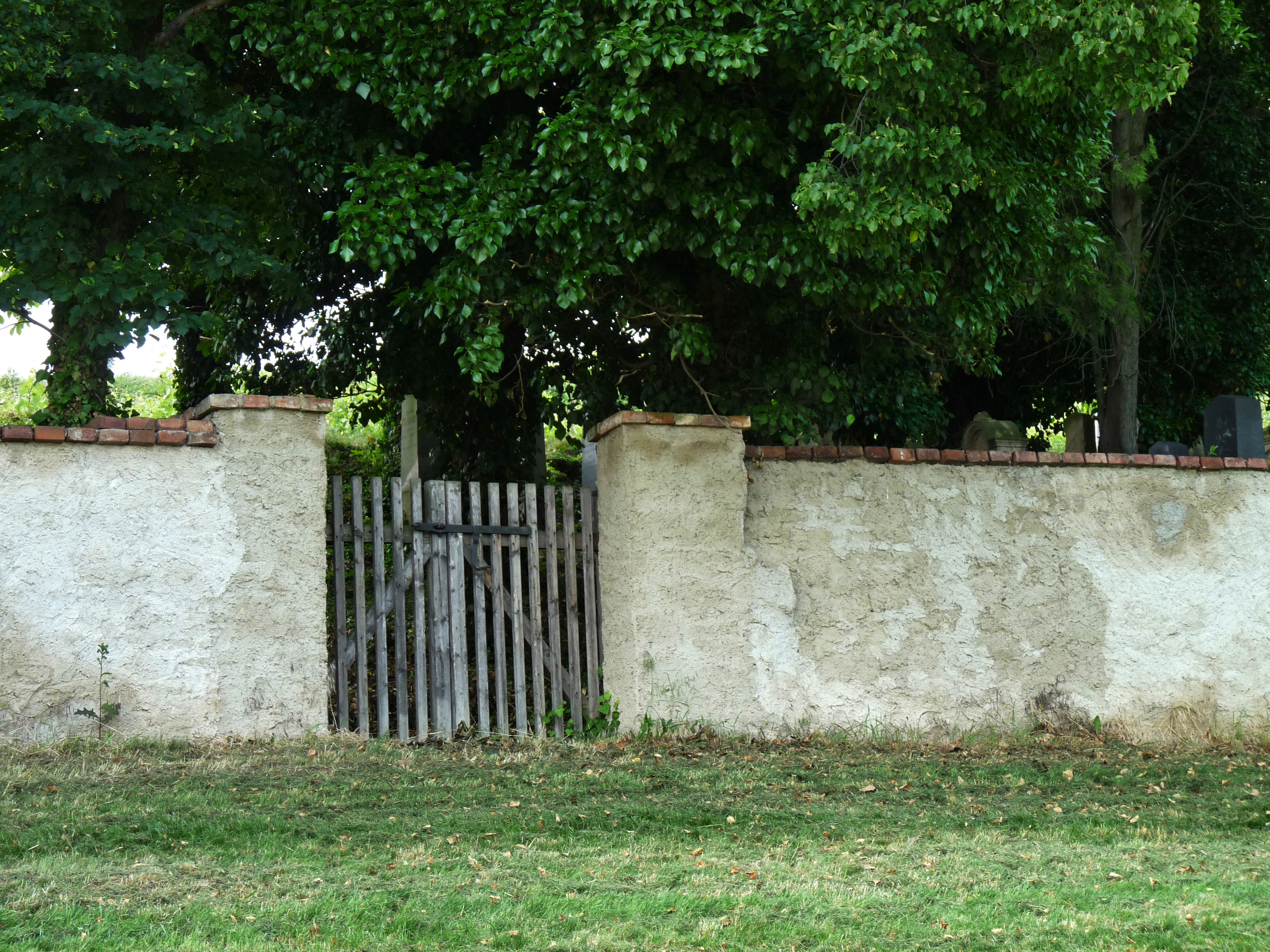 Gate of the Jewish cemetery by the village of Třebívlice, Litoměřice District, Ústí nad Labem Region, Czech Republic.